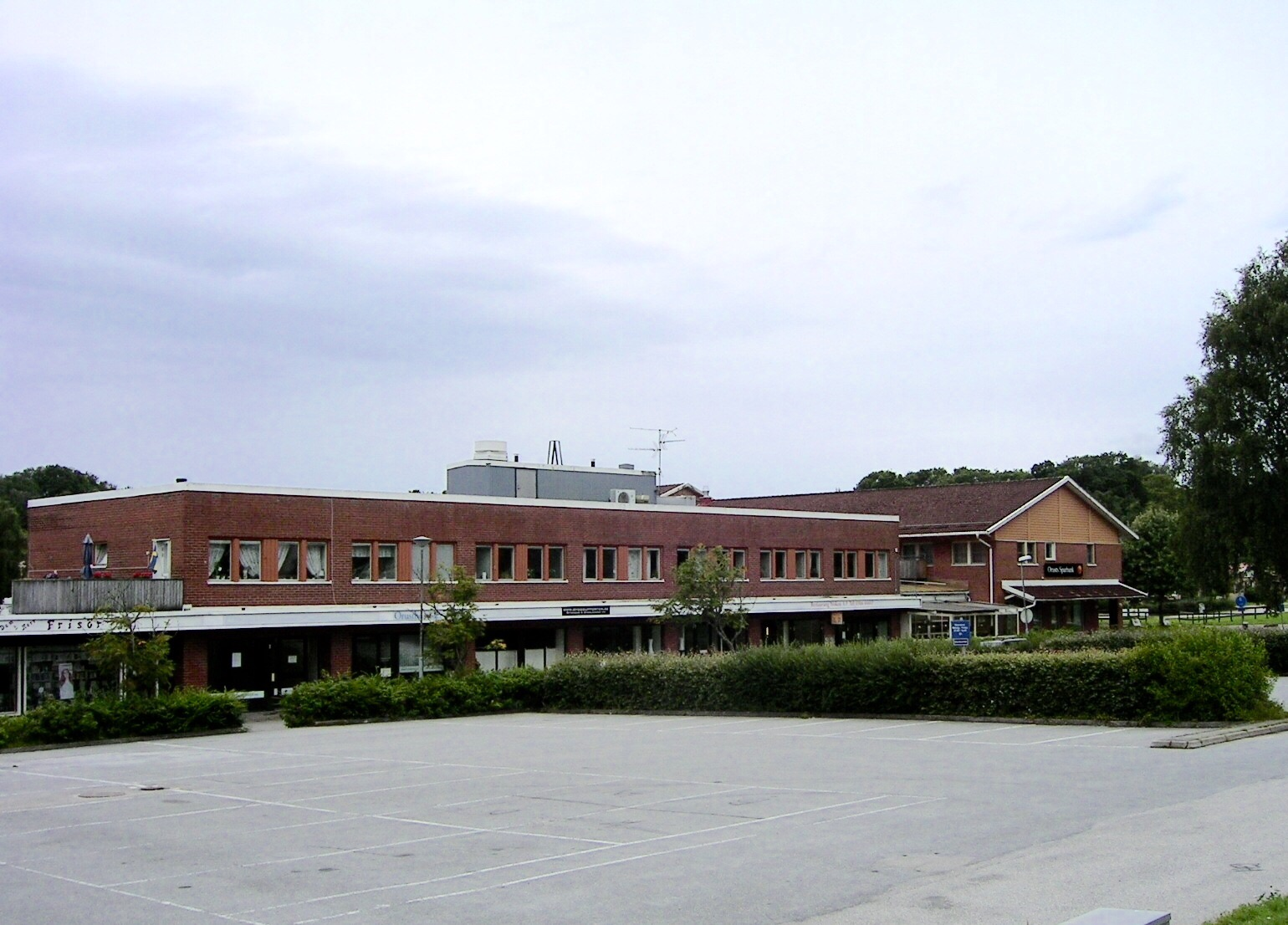 Building in the centre of Svanesund village, Orust municipality, Sweden